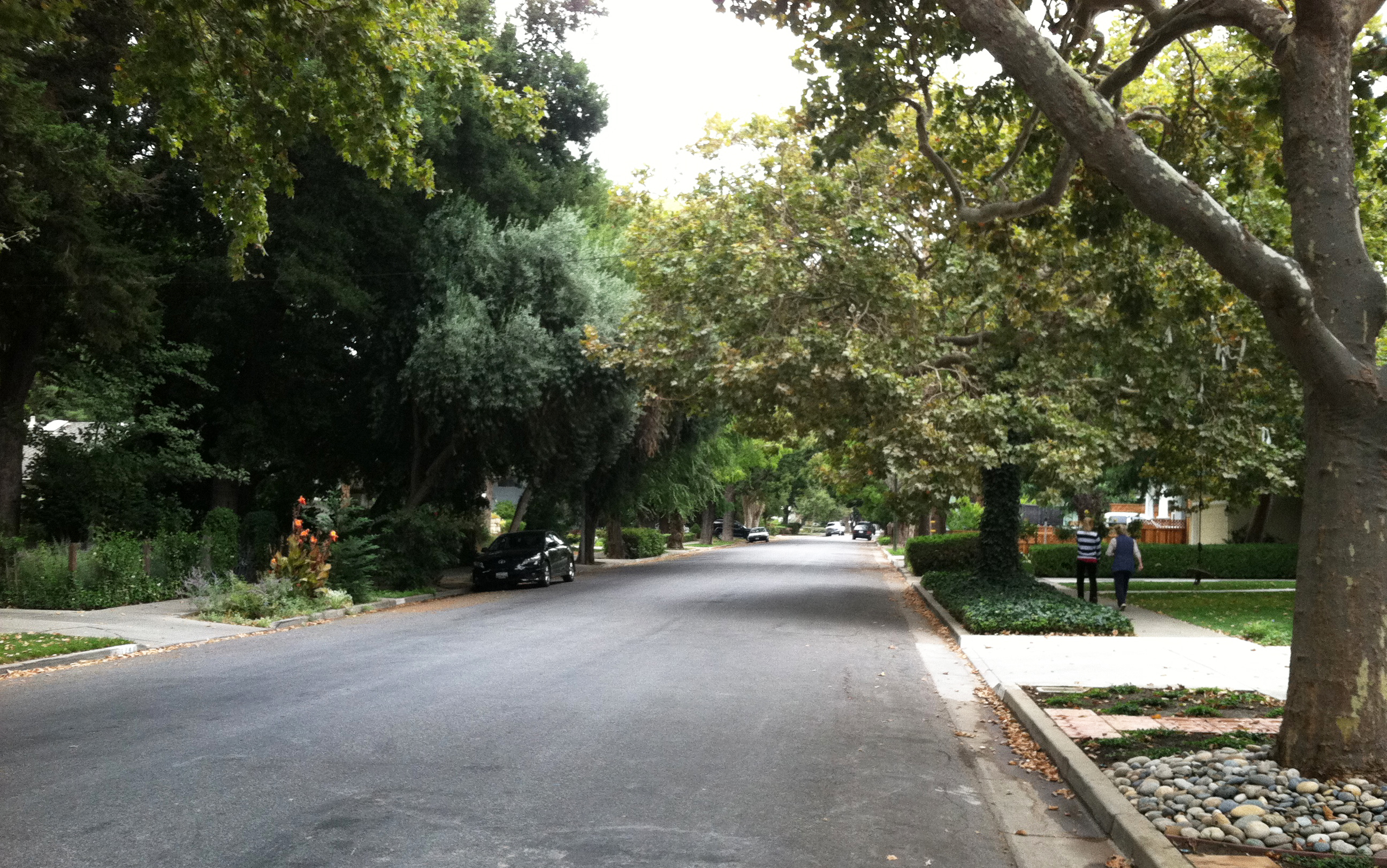 Cherry Avenue south of Britton Avenue in Willow Glen neighborhood in California, looking south.